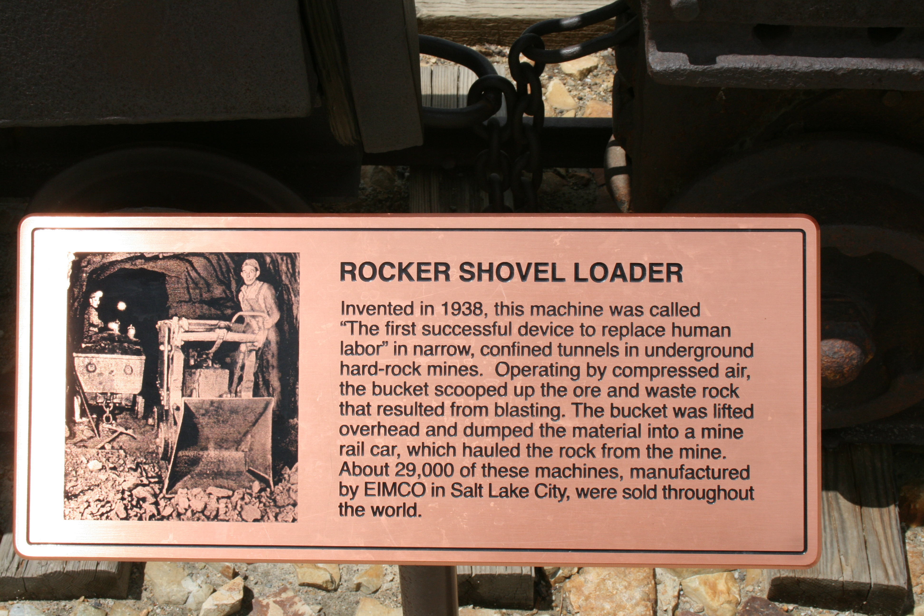 An engraved plaque giving information about the Rocker Shovel Loader used in hard rock mining. The location is likely to be Bingham Canyon Mine